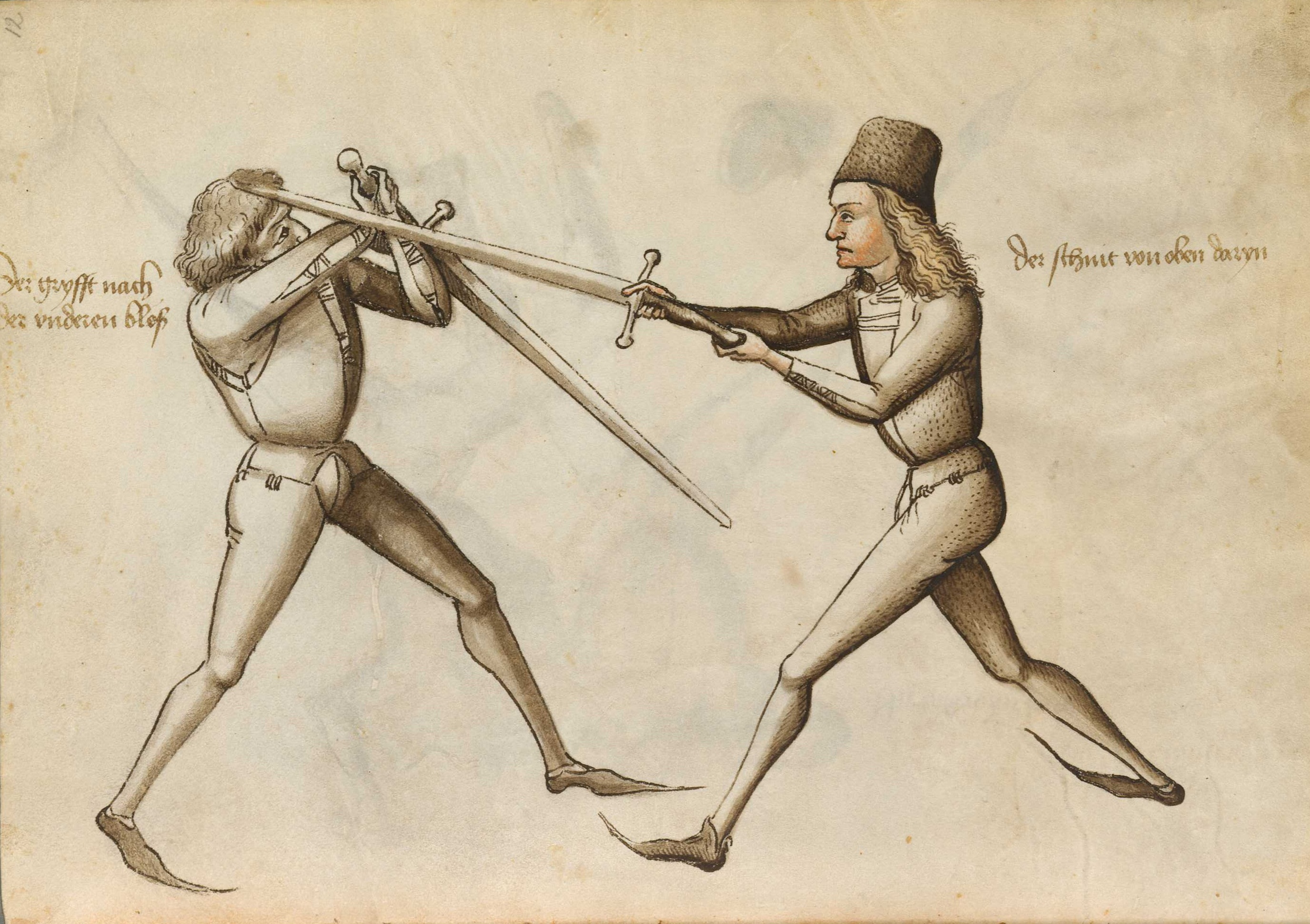 This is a scan of the historical Fechtbuch ('fencing book') by German fencing master Hans Talhoffer.